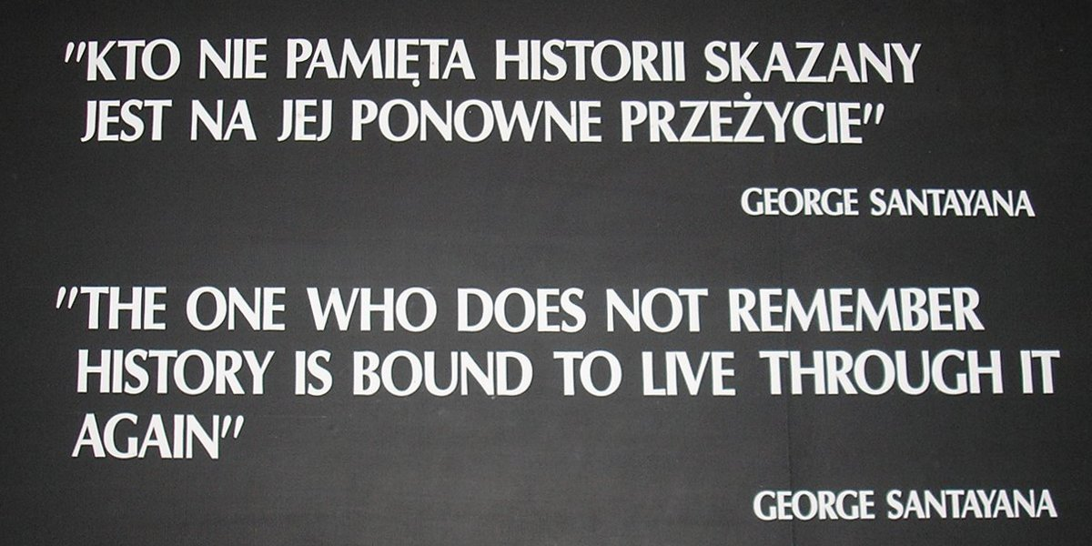 A photograph of the plaque outside of the Auschwitz concentration camp reading: "KTO NIE PAMIẸTA HISTORII SKAZANY / JEST NA JEJ PONOWNE PRZEŻYCIE" / GEORGE SANTAYANA / "THE ONE WHO DOES NOT REMEMBER / HISTORY IS BOUND TO LIVE THROUGH IT / AGAIN" / GEORGE SANTAYANA